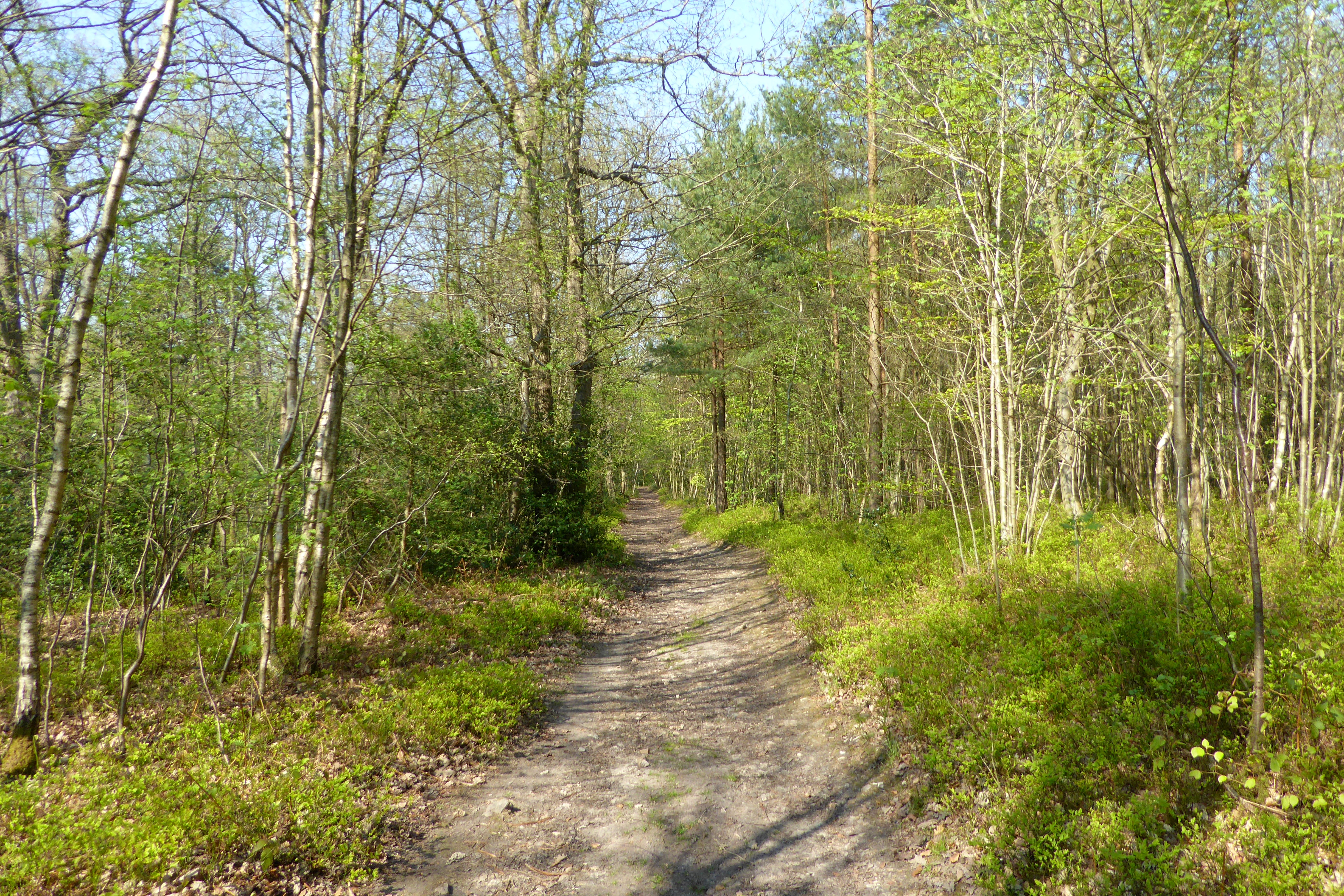 A pathway through Oldbury Wood, which comprises the southern half of the Iron Ag Oldbury Hillfort in Kent.